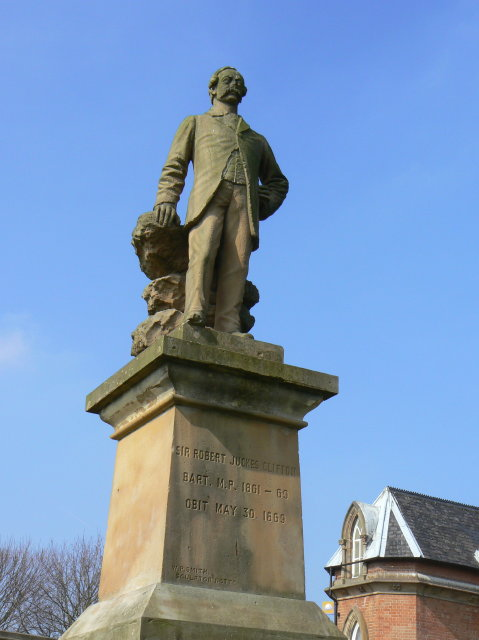 Sir Robert Juckes Clifton Statue near Wilford Toll Bridge. The only useful information I can find about him is that he was the last baronet Clifton!